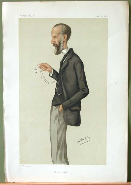 Statesmen No.283: Caricature of Sir G Campbell KCSI MP. Caption reads: "Indian authority"